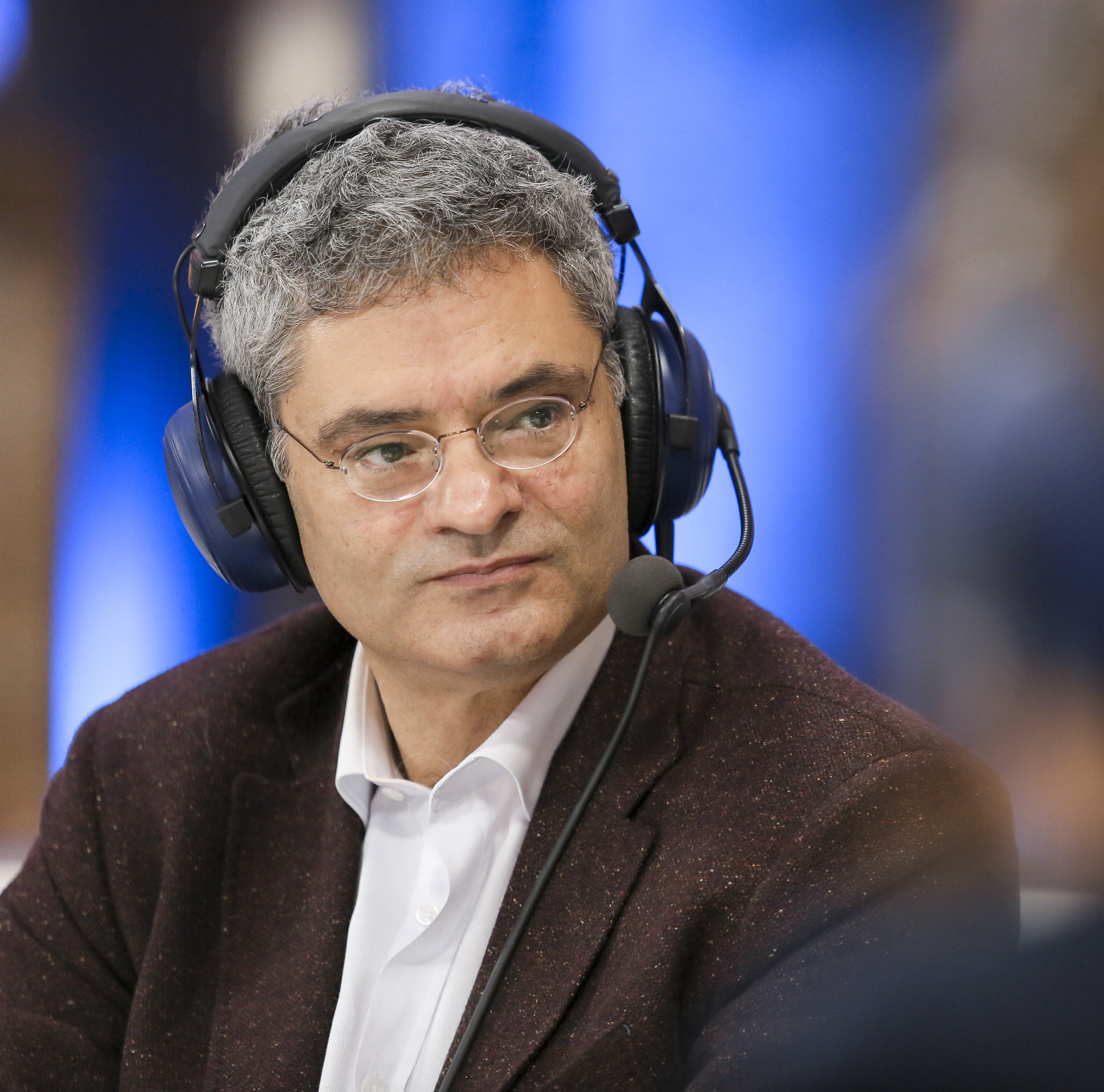 Euranet Plus, the leading radio network for EU news, hosted a Citizens’ Corner live debate on fighting corruption in the EU at the European Parliament in Brussels on December 2, 2014. The debate was jointly produced by Euranet Plus and Skaï Radio, Greece, member of the Euranet Plus network, and was moderated by journalist Stavros Samouilidis from Skaï Radio (in Greek) and Brian Maguire from the Euranet Plus News Agency in Brussels (in English). The debate also featured students from the Euranet Plus campus radio network. The debate was broadcast live at the top of this web page. You are invited to comment on the debate on our Facebook page event page or on Twitter using the hash tag #CitizensCorner. Part 1 | Greek | 12h30 – 13h15 CET | moderator Stavros Samouilidis | guests: - Maria SPYRAKI, MEP, Greece, Group of the European People’s Party - Eva KAILI, MEP, Greece, Group of the Progressive Alliance of Socialists and Democrats - Georgios KATROUGKALOS, MEP, Greece, Confederal Group of the European United Left – Nordic Green Left - Miltiadis KYRKOS, MEP, Greece, Group of the ProgressiveAlliance of Socialists and Democrats - George DASSIS, President of the Workers’ Group of the European Economic and Social Committee (EESC) Get more details, soundbites and the video recording of the debate at